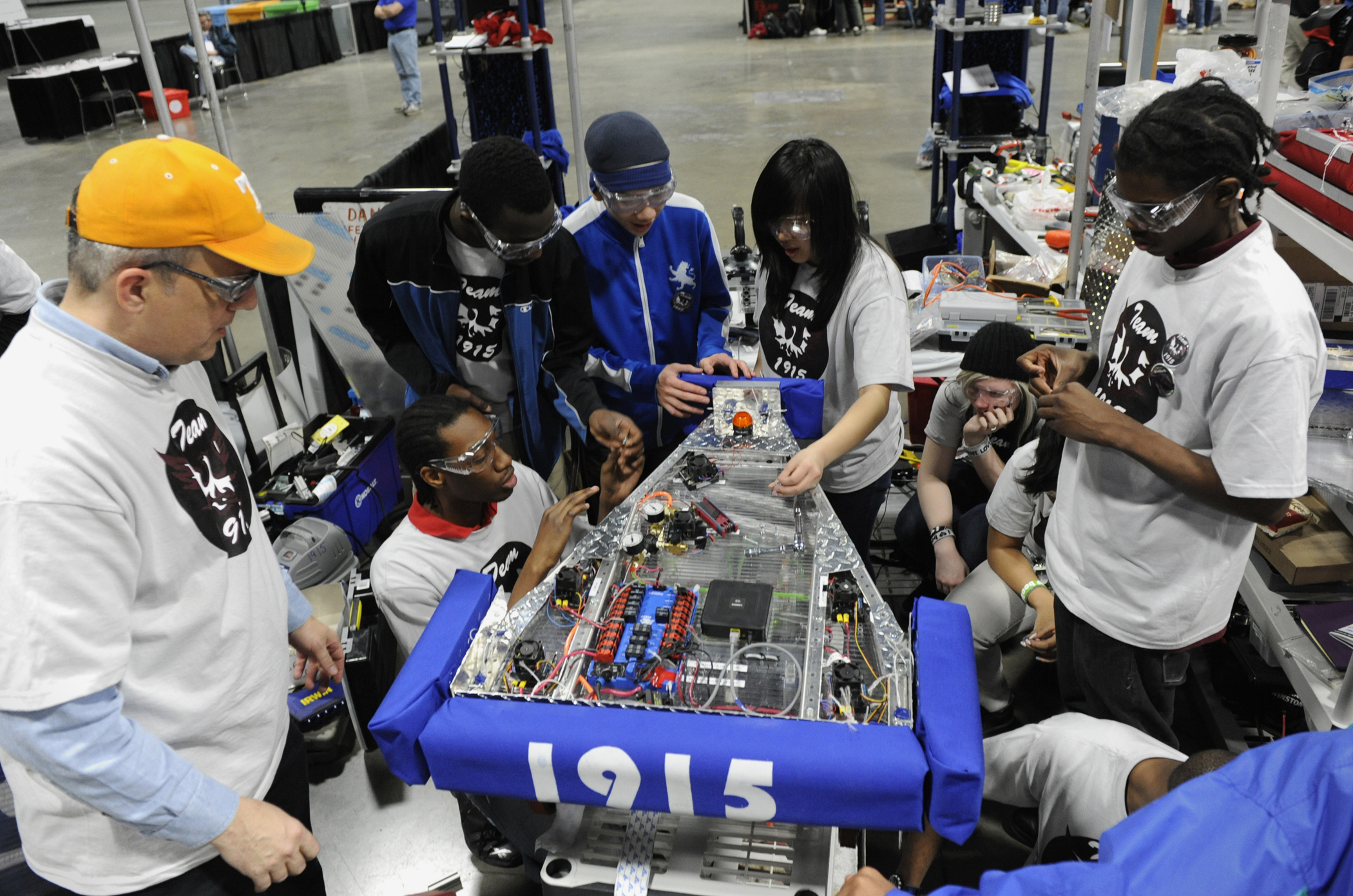 WASHINGTON (March 5, 2010) Cmdr. Jim Grove, from the Office of Naval Research Navy Reserve Program 38, left, helps students from McKinley Technology High School make adjustments to their robot during the For Inspiration and Recognition of Science and Technology regional Washington, D.C. competition. The team, coached by Grove, is sponsored by the Office of Naval Research. (U.S. Navy photo by John F. Williams/Released)